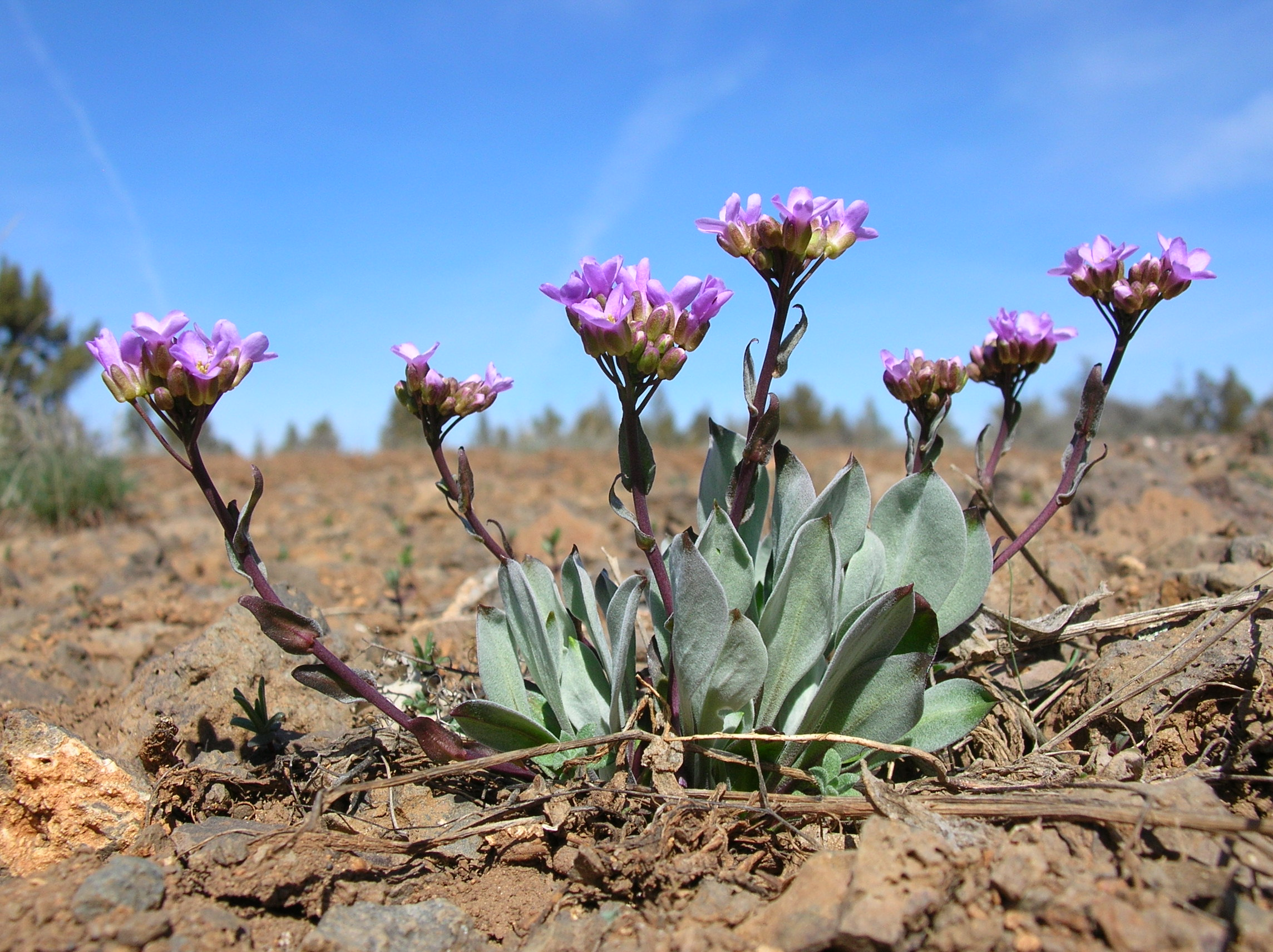 Phoenicaulis cheiranthoides — wallflower phoenicaulis In the Modoc National Forest, of the northeastern Great Basin region of California.